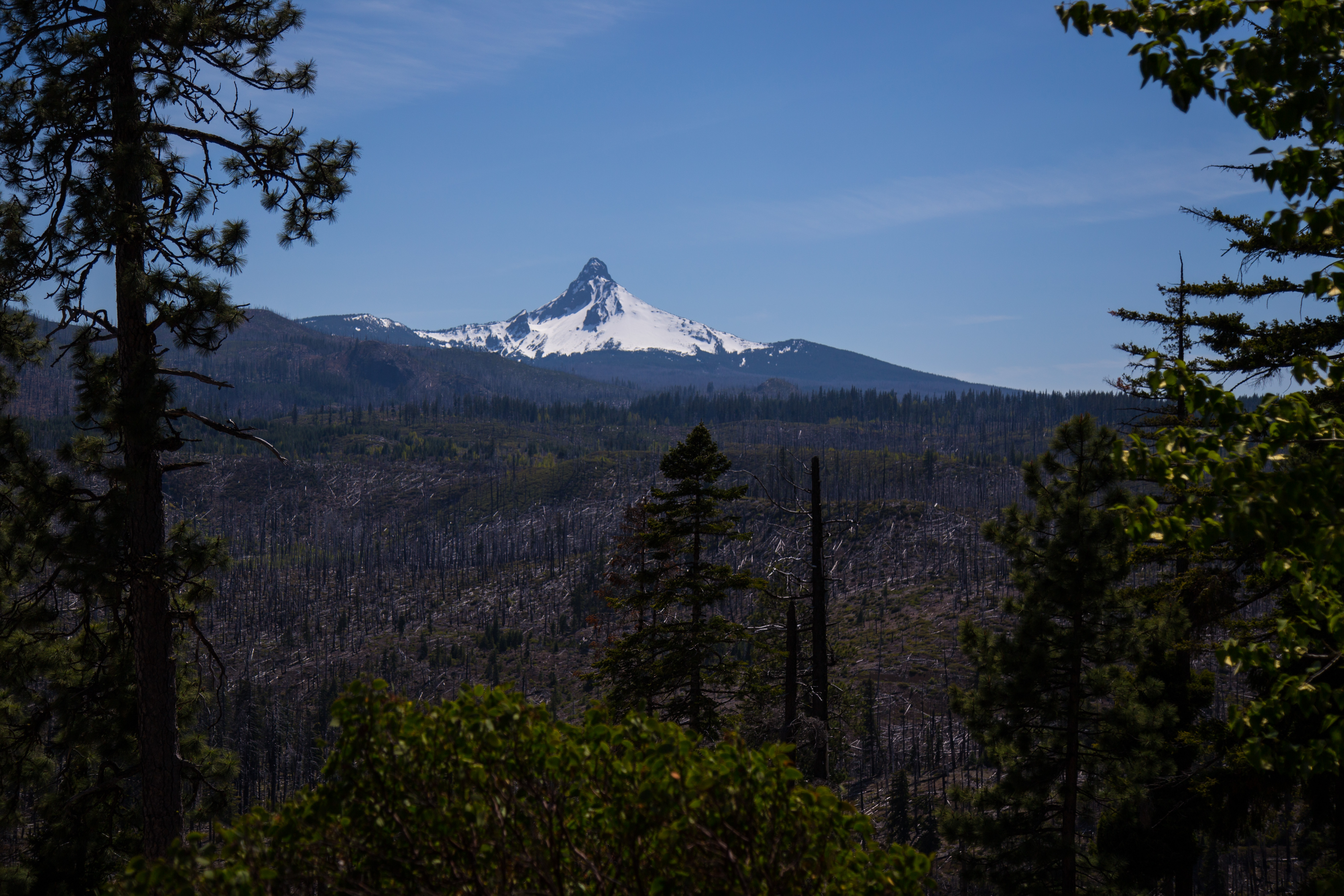 Mount Washington (Oregon) seen from viewpoint above Blue Lake Crater on Santiam Highway (US 20)